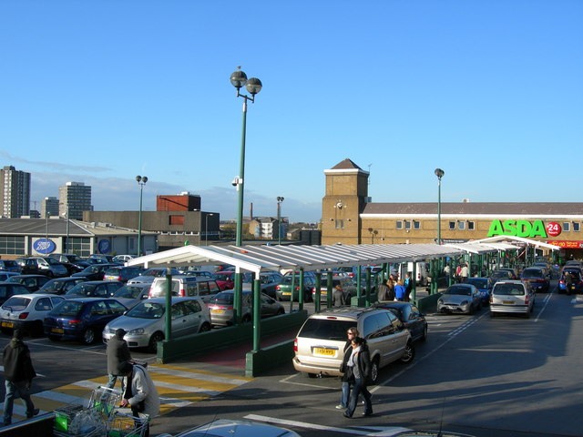 Asda and Boots, Battersea The Asda is open 24 hours a day other than a token shutdown for part of Sunday. The car park is patrolled to prevent all day parking. The walkway leads from Lavender Hill.